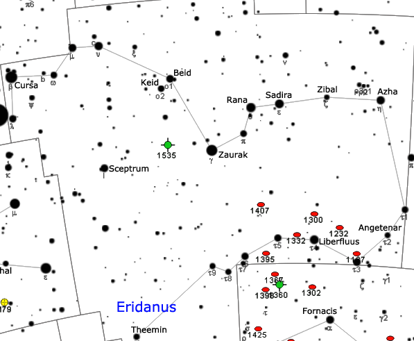 Northern half of constellation eridanus